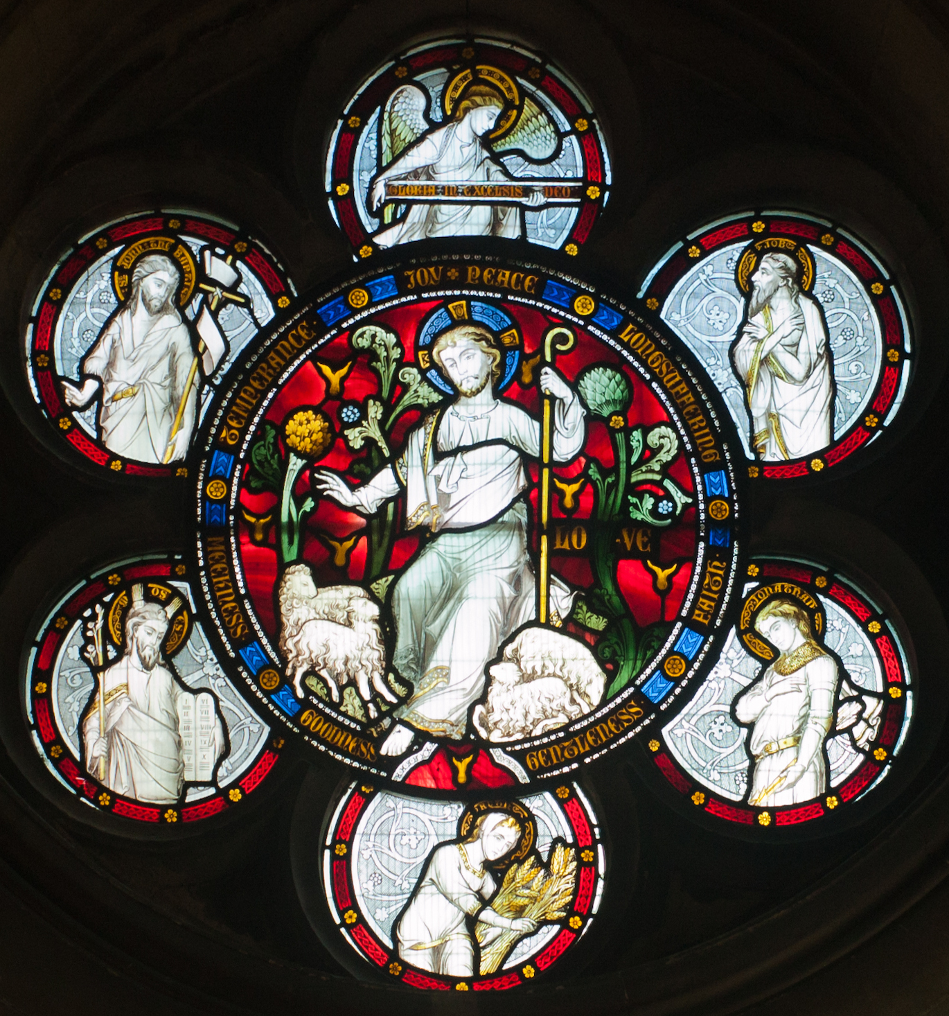 Right stained glass rose window in the east wall of the passage to the Synod Hall (now Dublinia), depicting in its centre the Lord as Good Shepherd along with the Fruit of the Spirit, namely Love (inscription in centre), Joy & Peace (top inscription), and in clockwise direction: Longsuffering, Faith, Gentleness, Goodness, Meekness, Temperance in reference to Galatians 5:22-23, surrounded by medaillons, depicting an angel carrying a scroll with the inscription Gloria in excelsis deo (top, representing joy & peace), and then in clockwise direction: Job (upper right, representing longsuffering), Jonathan (lower right, representing faithfulness), Ruth (bottom, representing goodness and gentleness), Moses (lower left, representing meekness), and John the Baptist (upper left, representing temperance, see Matthew 3:4). Cartooned by John Hardman Powell (1827–1895), executed by Hardman & Co.